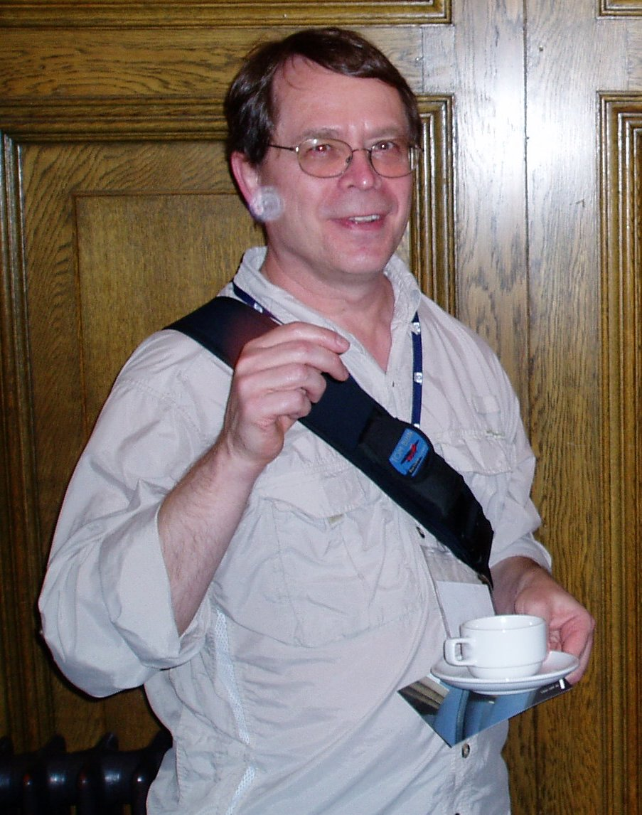 Picture of Computer Scientist Van Jacobson. Taken by myself on Friday Jan 16th 2006 at .